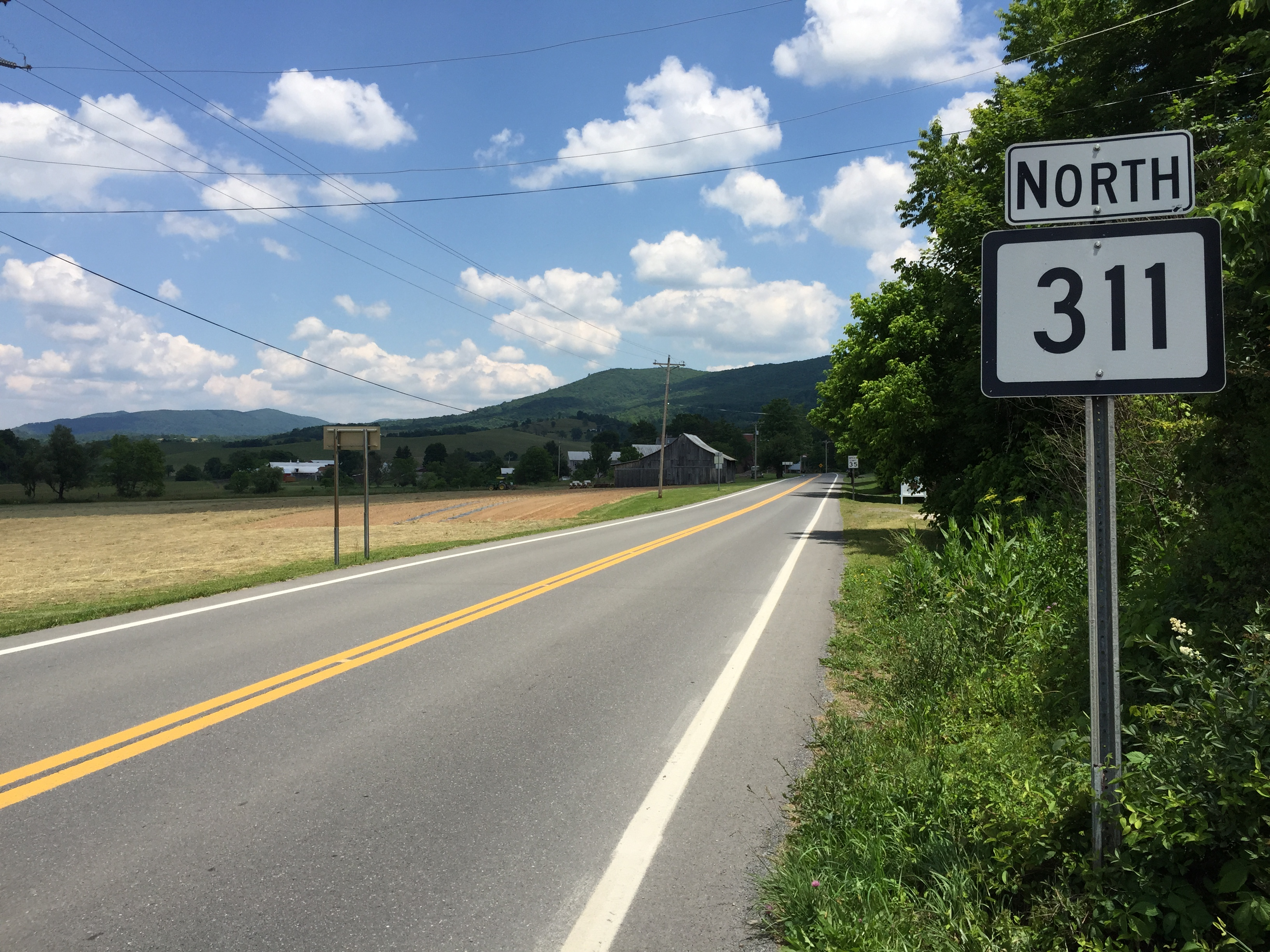 View north along West Virginia State Route 311 (Sweet Springs Valley Road) at West Virginia State Route 3 in Sweet Springs, Monroe County, West Virginia